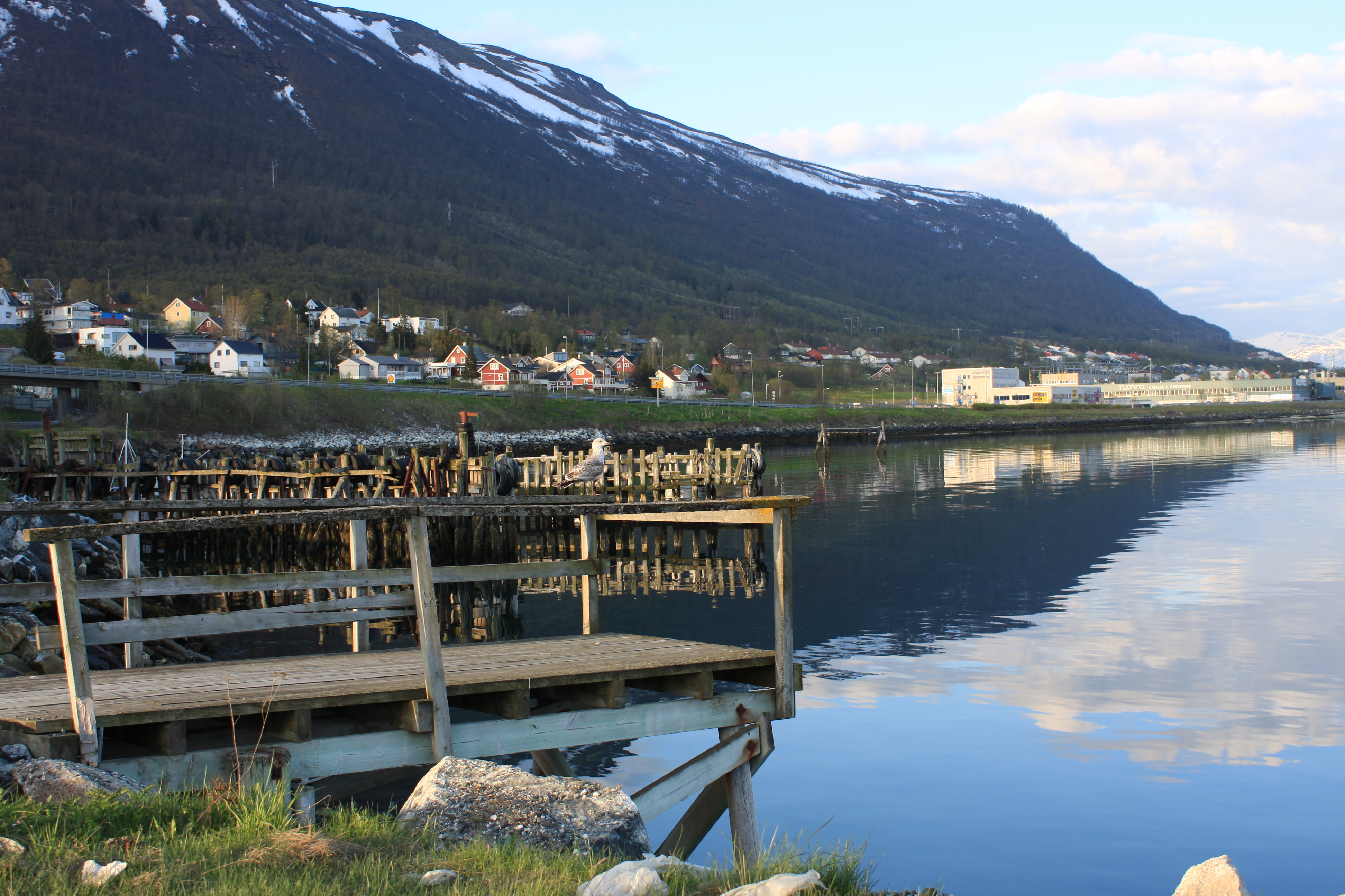 Gull on the quay in Tromsø, Norway.